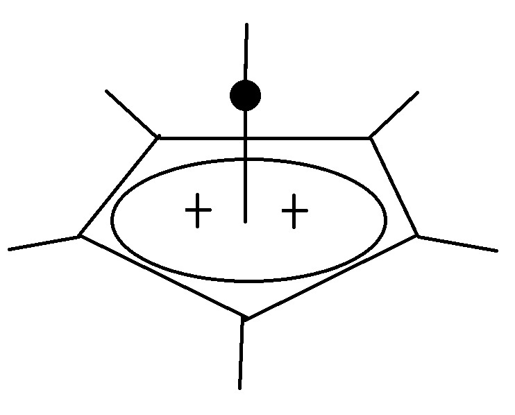 5 sided pyramidal carbodication